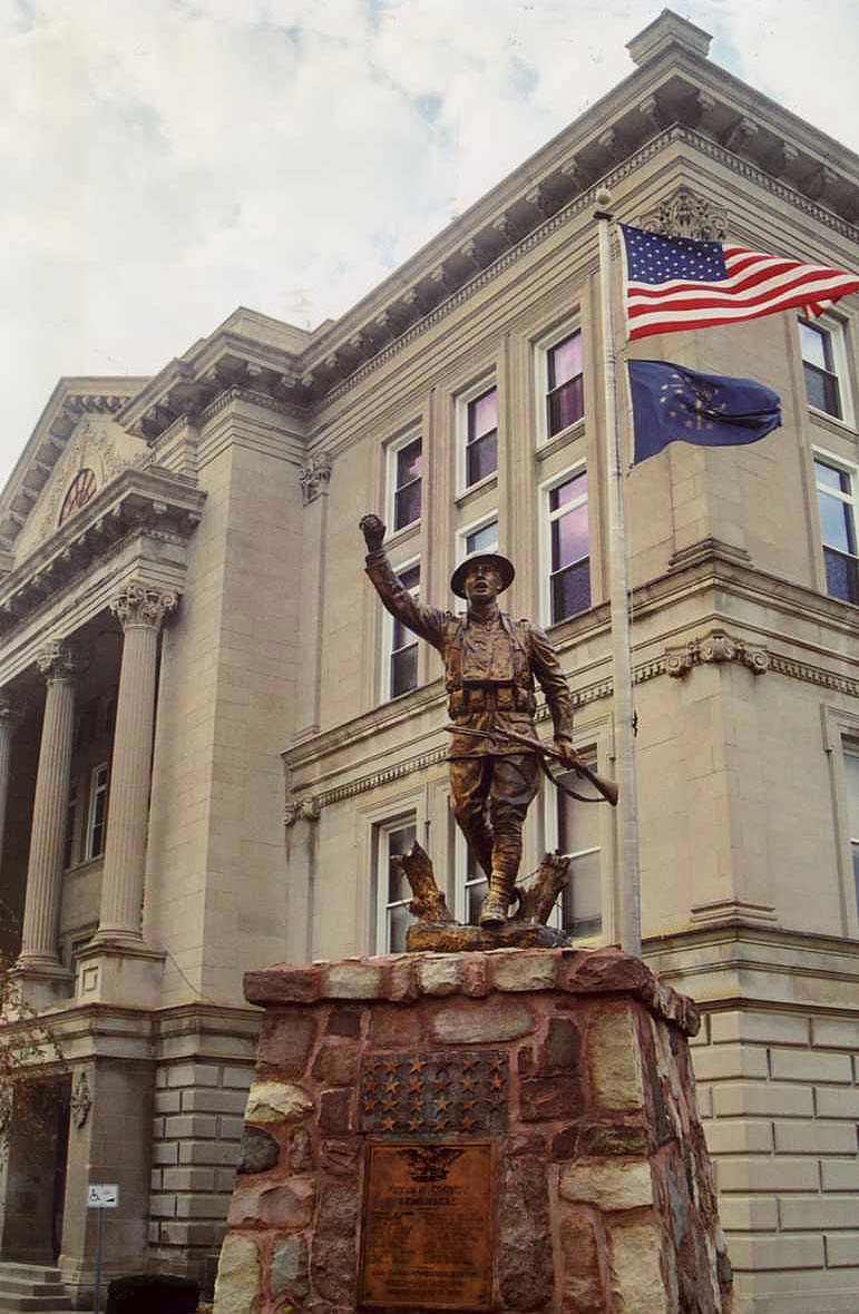 spirit of the American Doughboy